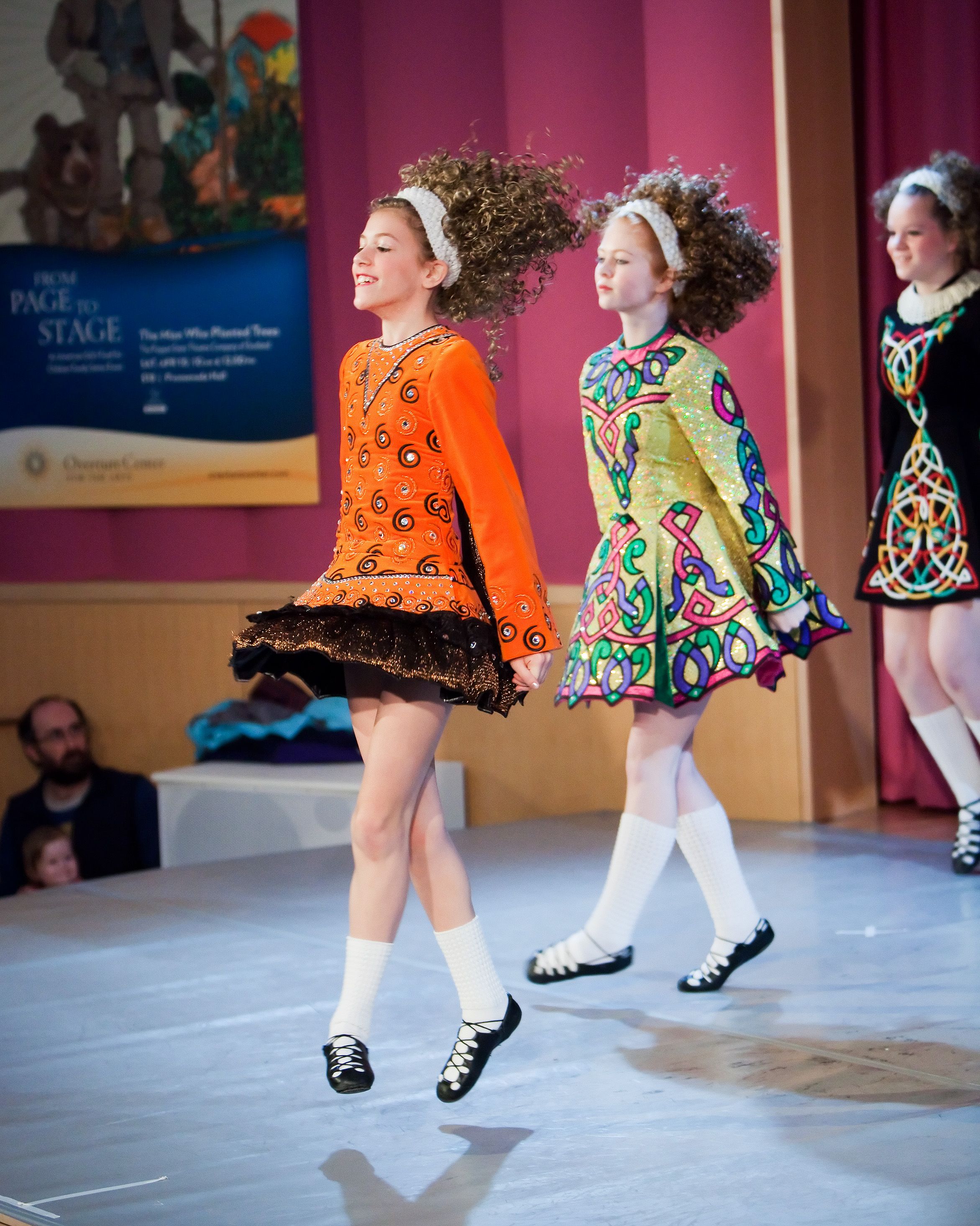 Here I am shooting a performance at 3200 again. Pretty usual. Except this time it's to stop motion. Takes about 3 stops more to do a dancer than a singer. Kids in the rotunda at the Overture.